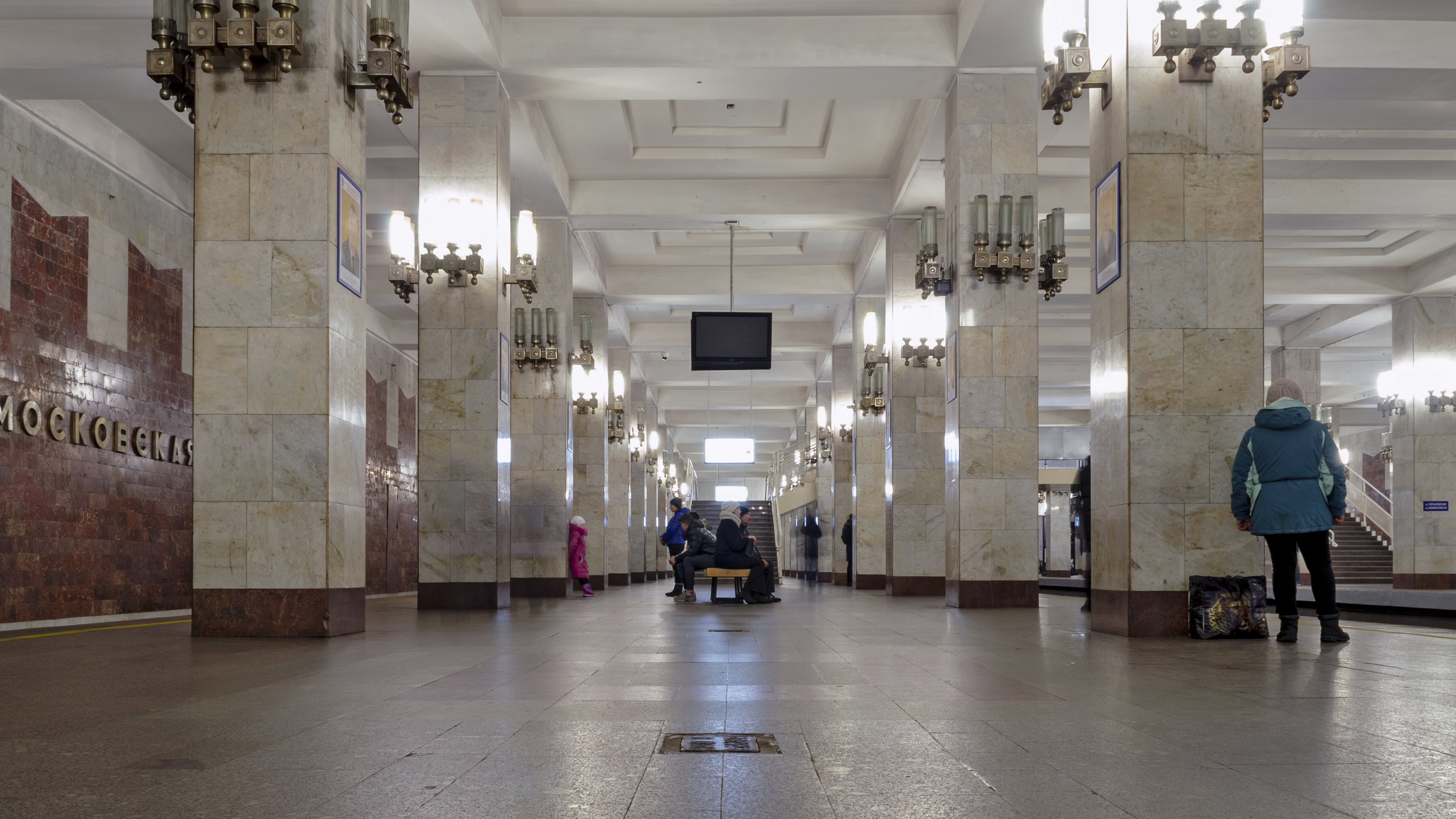 Moskovskaya metro station in Nizhny Novgorod, Russia.